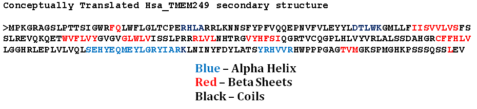 This is a picture of a conceptual translation strictly displaying the secondary structure prediction for the human protein TMEM 249 isoform 1.